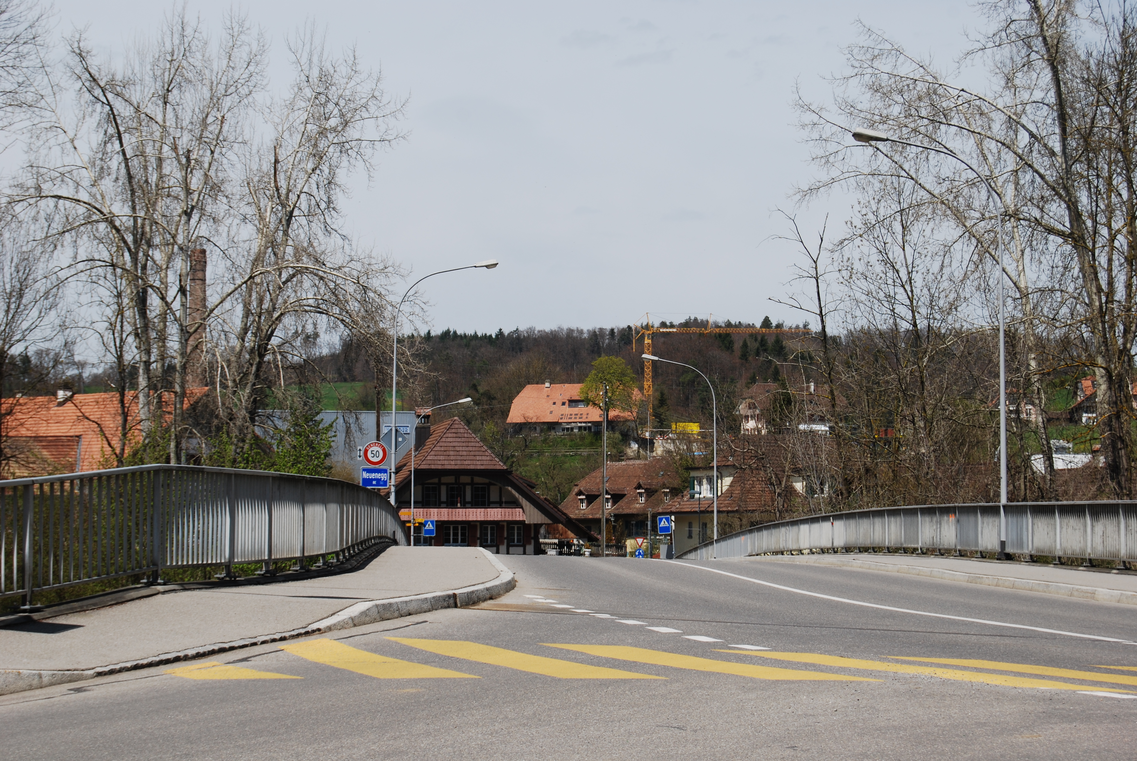 Neuenegg, canton of Bern, SwitzerlandEsperanto: Neuenegg, Kantono Berno, Svislando